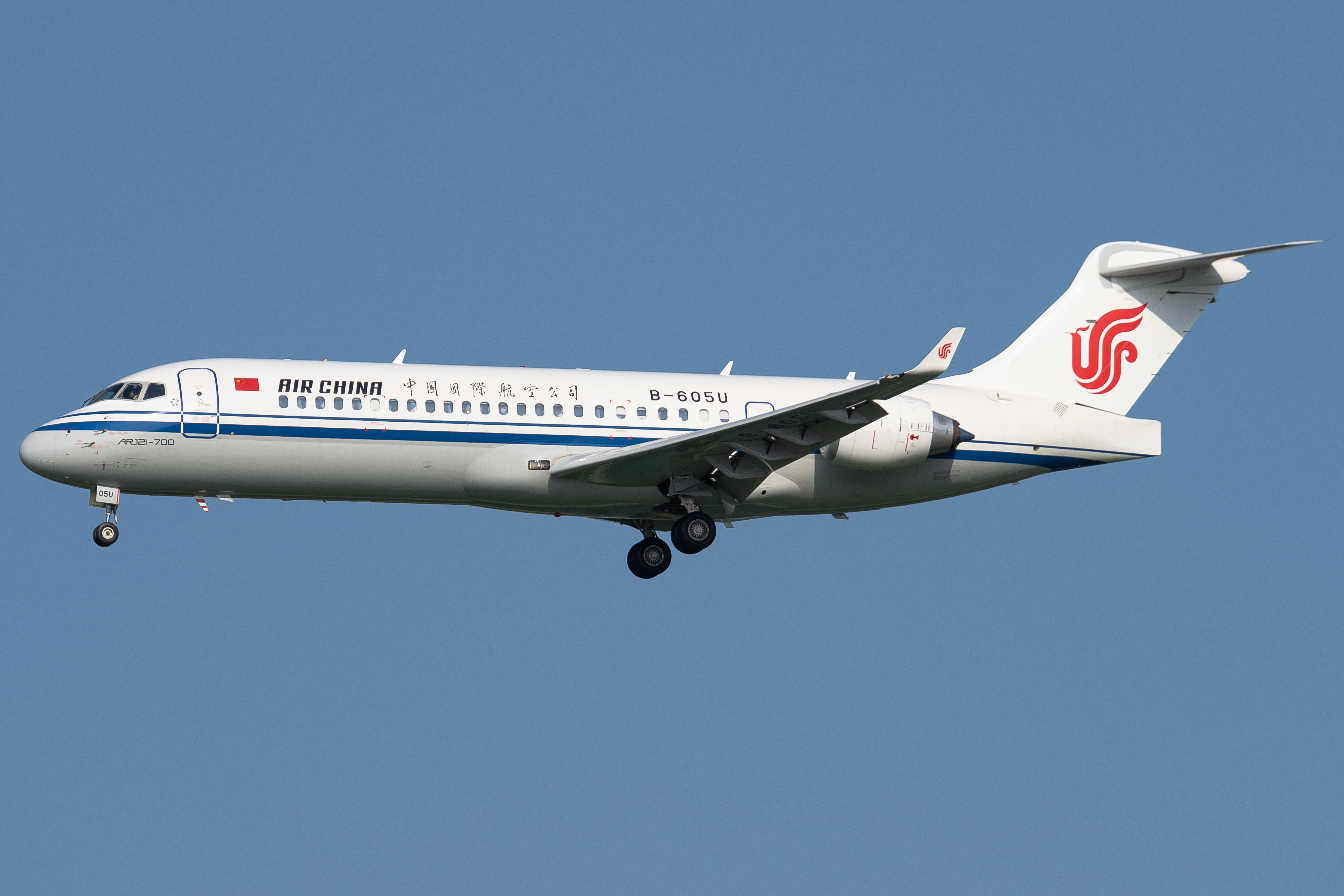 Air China 1108 from Baotou. Morning to Xilinhot (CA1109/10), and afternoon to Baotou (CA1107/8).